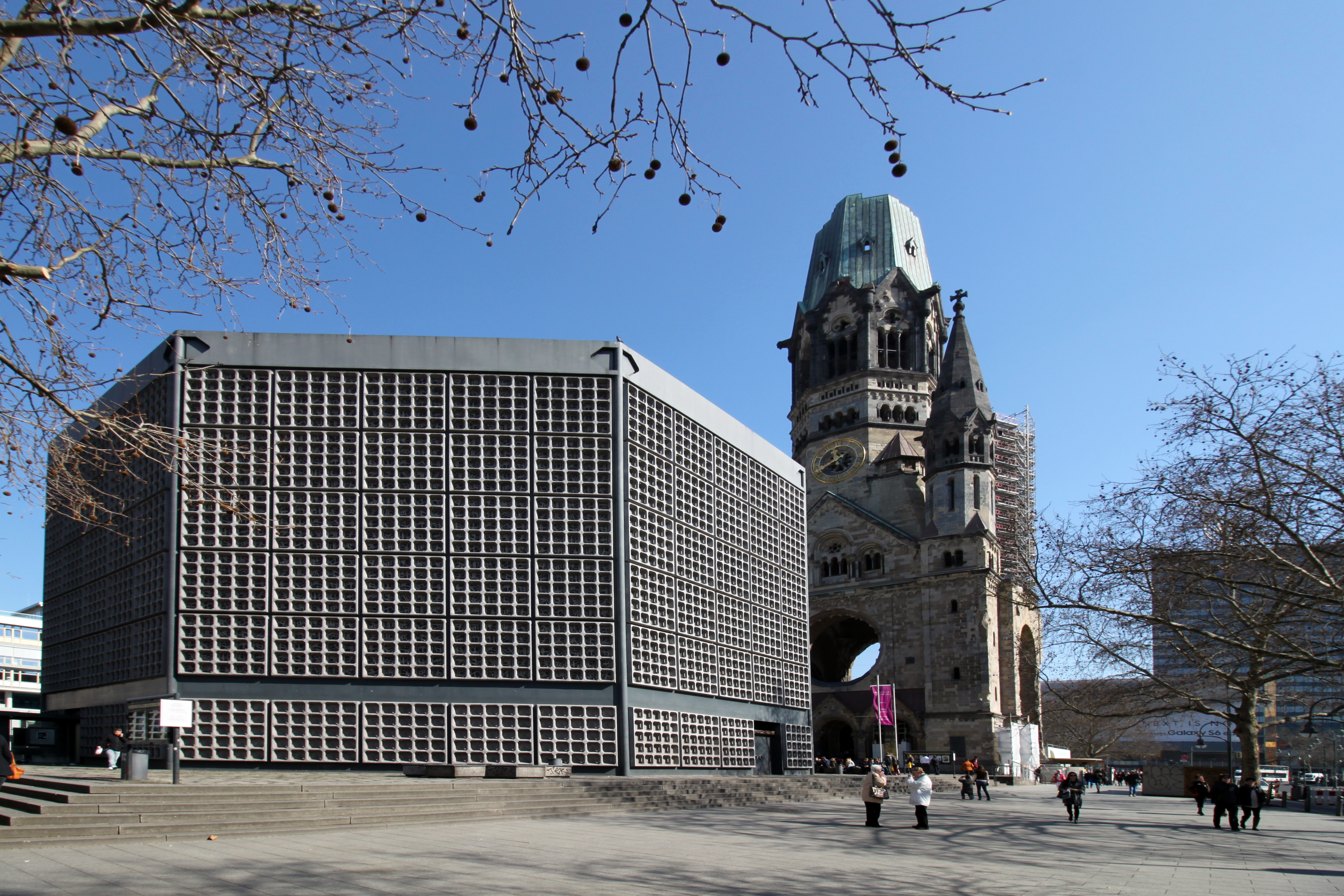 Berlin: Kaiser Wilhelm Memorial Church